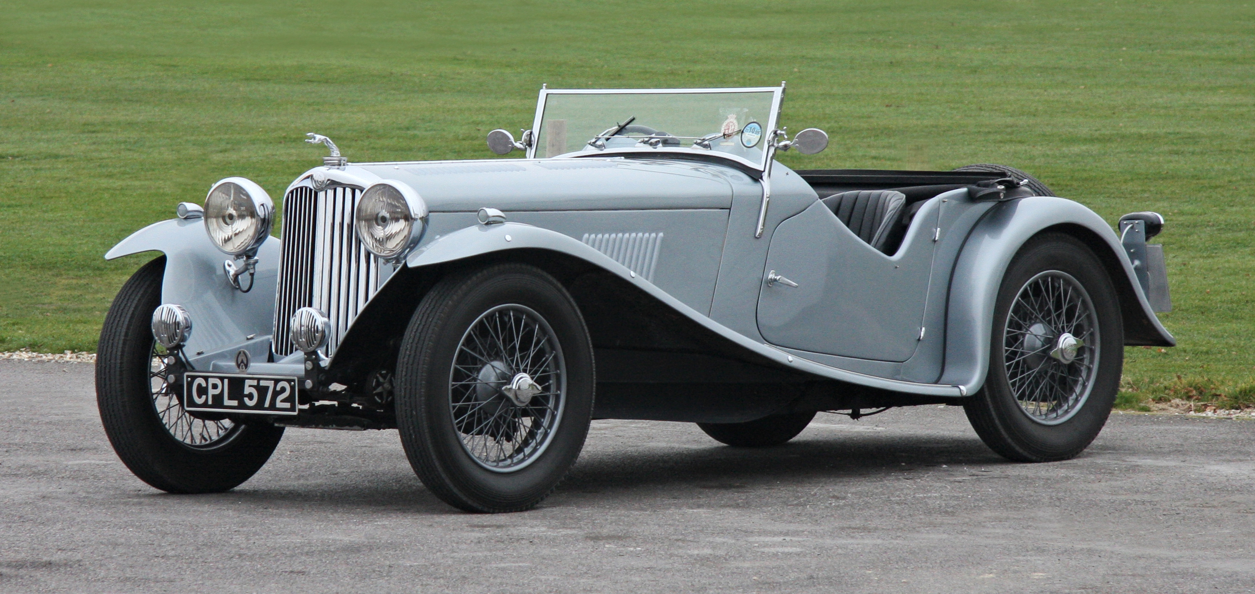 AC Six (AC 16/80 "Ace" Two Seater Competition Sports, ca. 1936) this model has won the "Alpenrally" in 1936, greyhound (not a jaguar!) as a contamporary radiator mascot DVLA manufactured 1934, 1991 cc